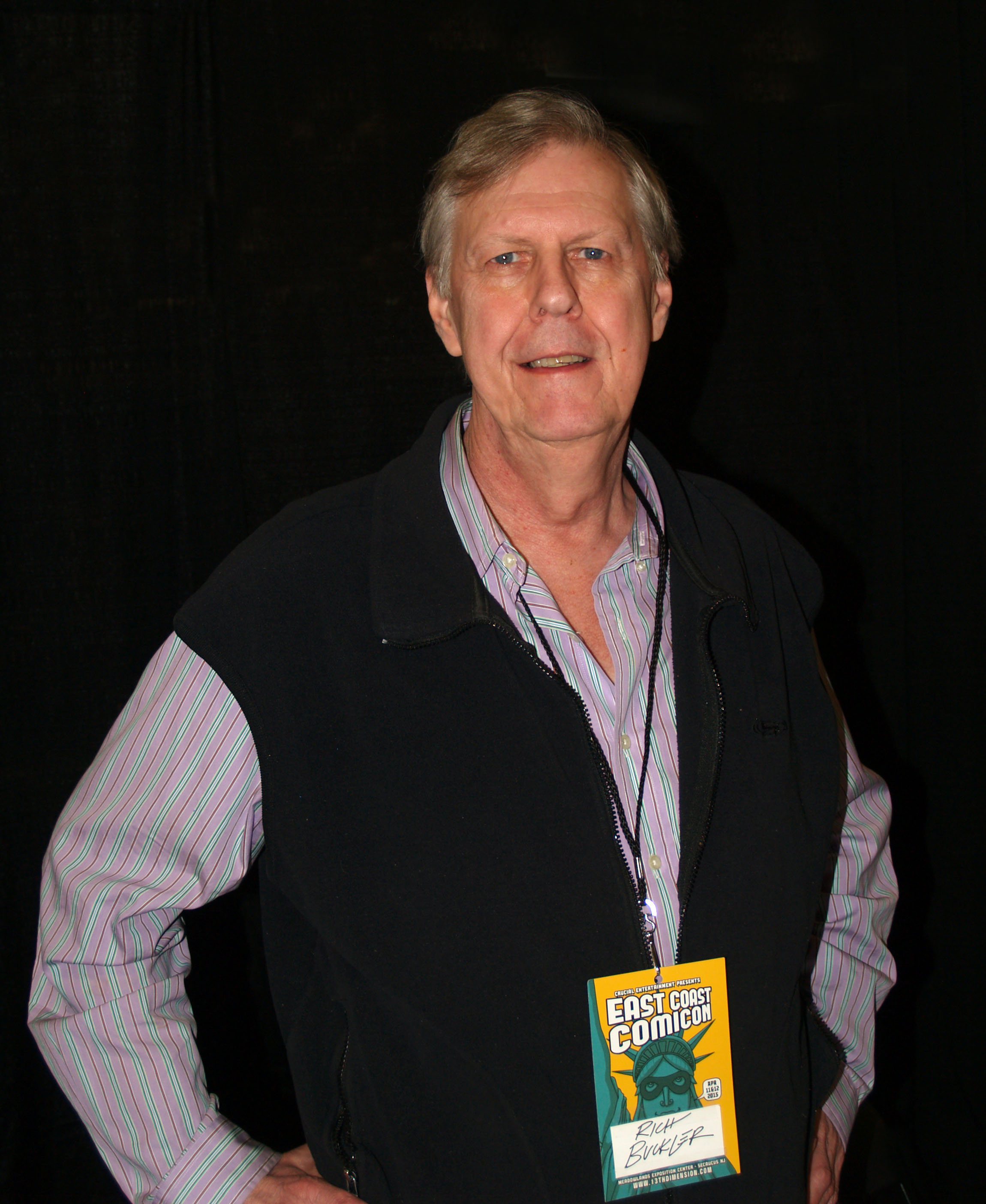 Comics artist Rich Buckler at the Meadowlands Exposition Center in Secaucus, New Jersey on April 11, 2015, Day 1 of the 2015 East Coast Comicon. This photo was created by Luigi Novi. It is not in the public domain, and use of this file outside of the licensing terms is a copyright violation.